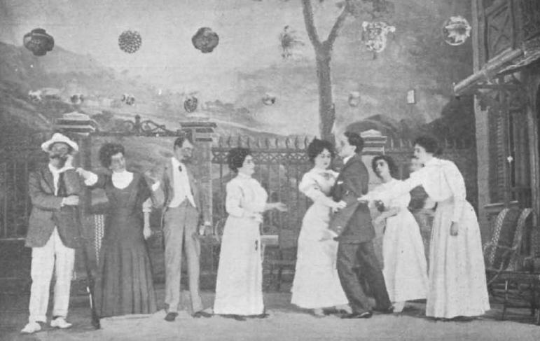 Los actores Santiago, Alba, Bonafé, Martínez, Pérez de Vargas, González, Sanchiz y Bedoya en una escena del estreno de la obra de teatro Mi papá, de Carlos Arniches